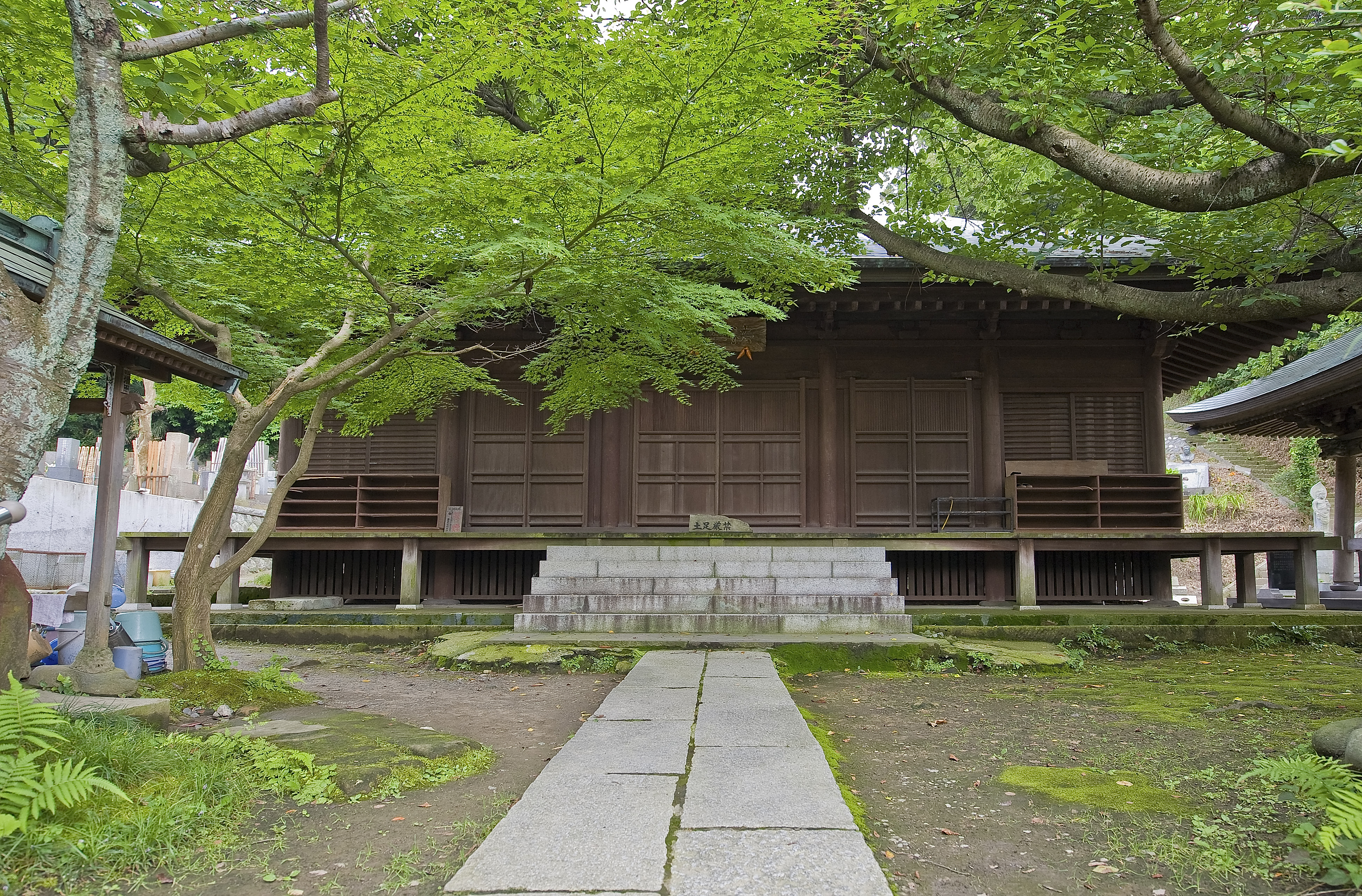 The Hokkedō, or Hall of Scriptures, of Chōshō-ji in Kamakura, Japan